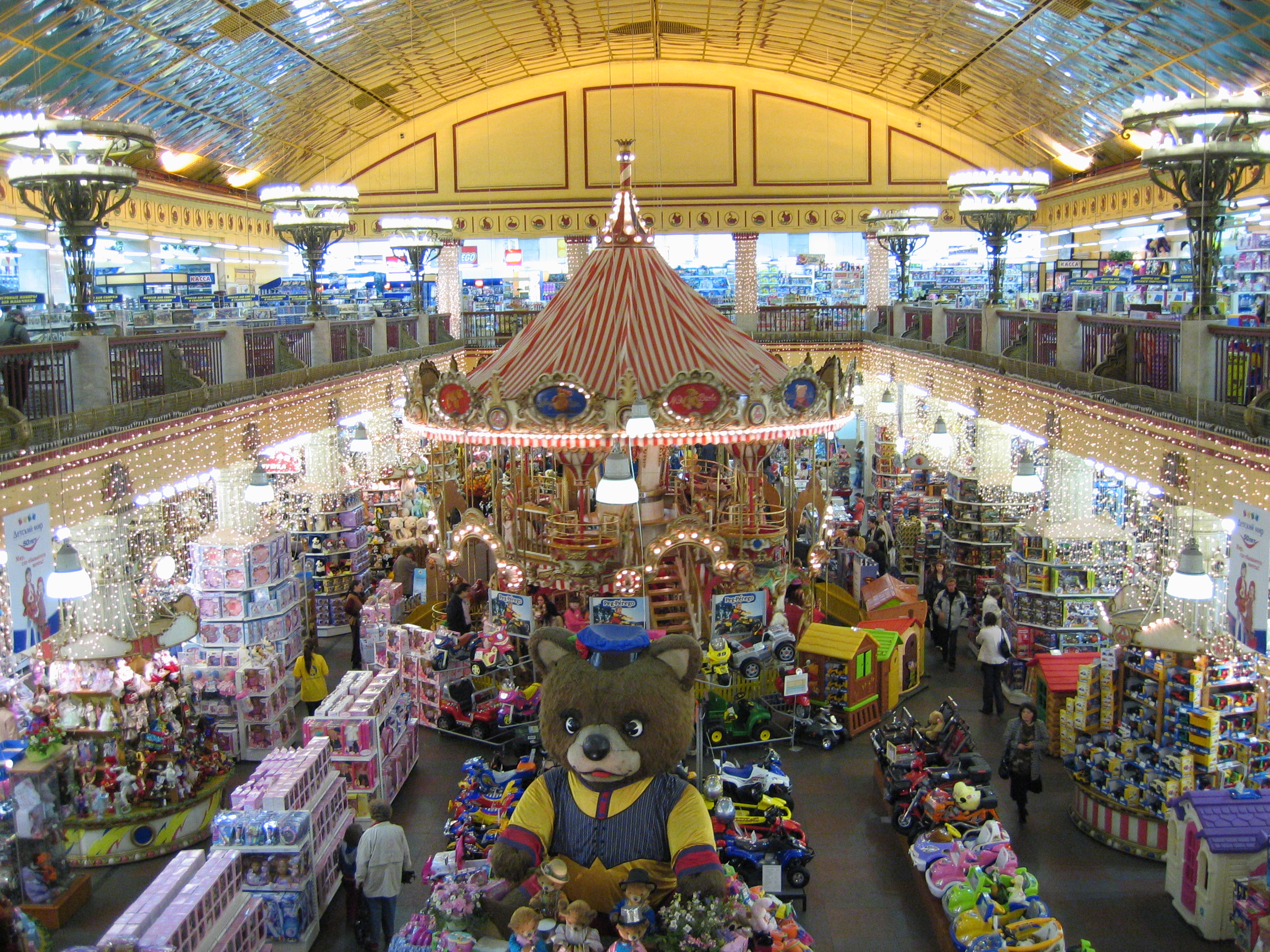 Detskiy Mir department store in Moscow, Lubyanka square